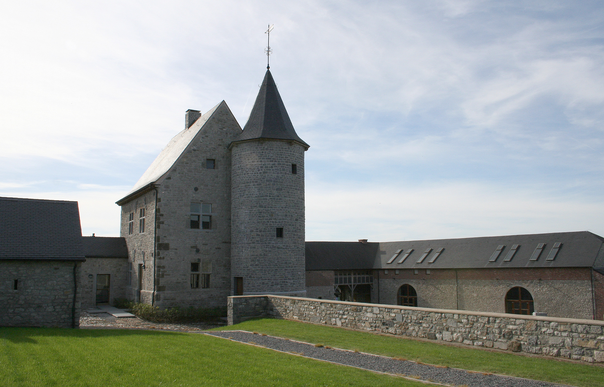 Marloie, buildings of the lordly farm - "la Vieille et la Nouvelle Cense" (XV/XVIIth centuries).